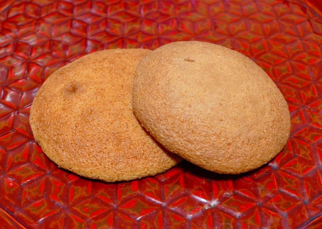 Marubōro